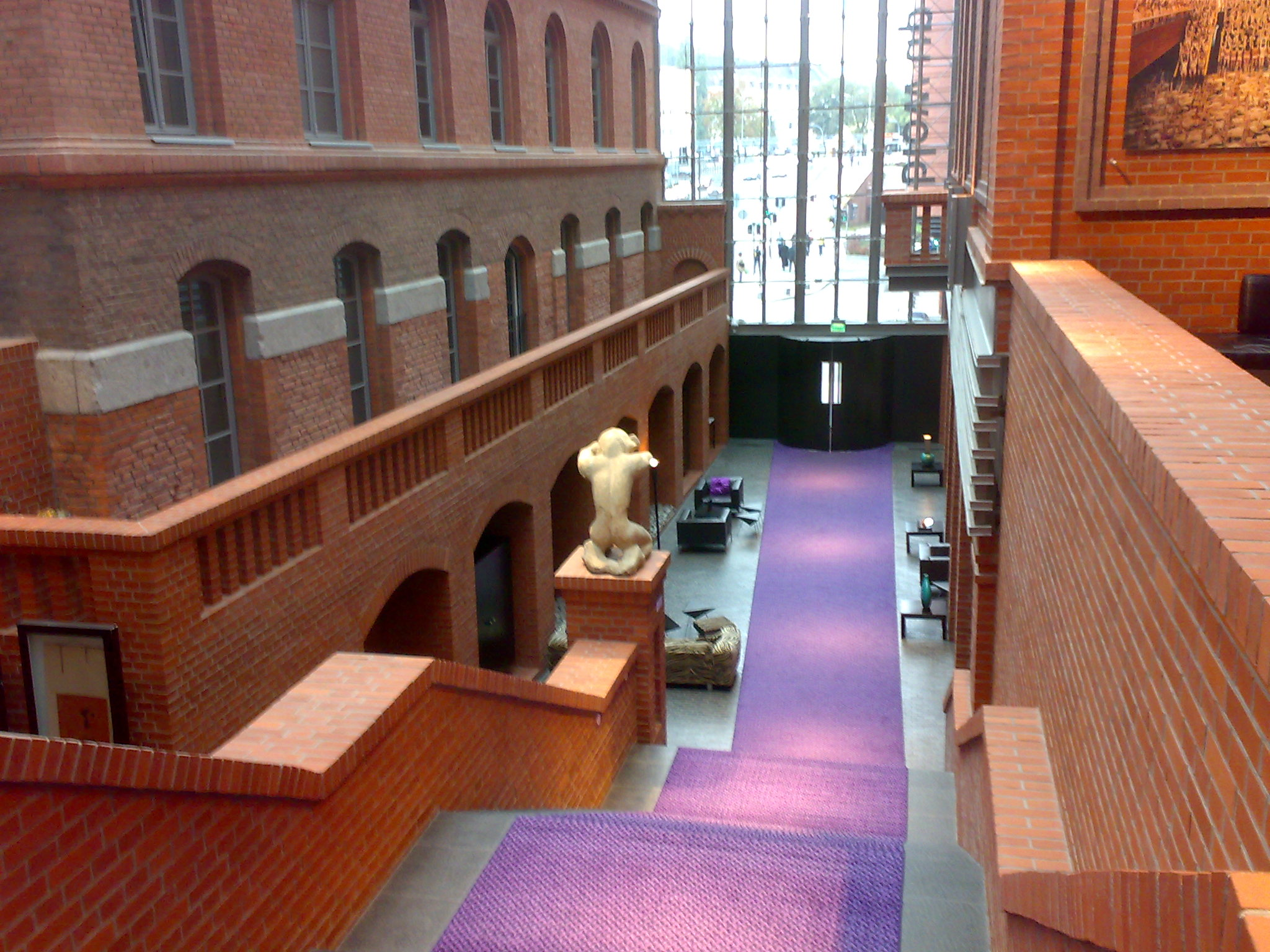 Blow Up Hall Hotel, Poznan. Old Brewery.